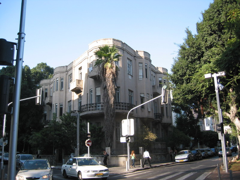 Rothschild Boulevard, Tel Aviv